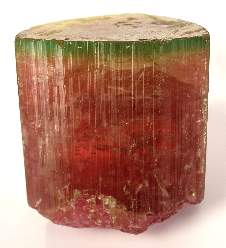 Elbaite Locality: Tourmaline Queen Mine (MS 6458; Tourmaline Queen No. 3), Tourmaline Queen Mountain (Pala; Queen), Pala District, San Diego County, California, USA (Locality at ) Size: 5.1 x 4.8 x 4.4 cm. This equant, intensely colored crystal is from the famous Green Cap Pocket of 1988, collected by John McLean working for Pala International. This is the crystal they kept for their own collection, amidst only a dozen or so good singles of this size. These crystals, in person, have a more intense green cap and sharp definition of color bands than some seemingly similar material found at the Himalaya Mine (which is duller in color and has a less defined cap). Also, these tend to be more stout and fat, as you see here, than Himalaya "green caps." Weighs 225 grams. Ex. Pala International/William Larson Collection.